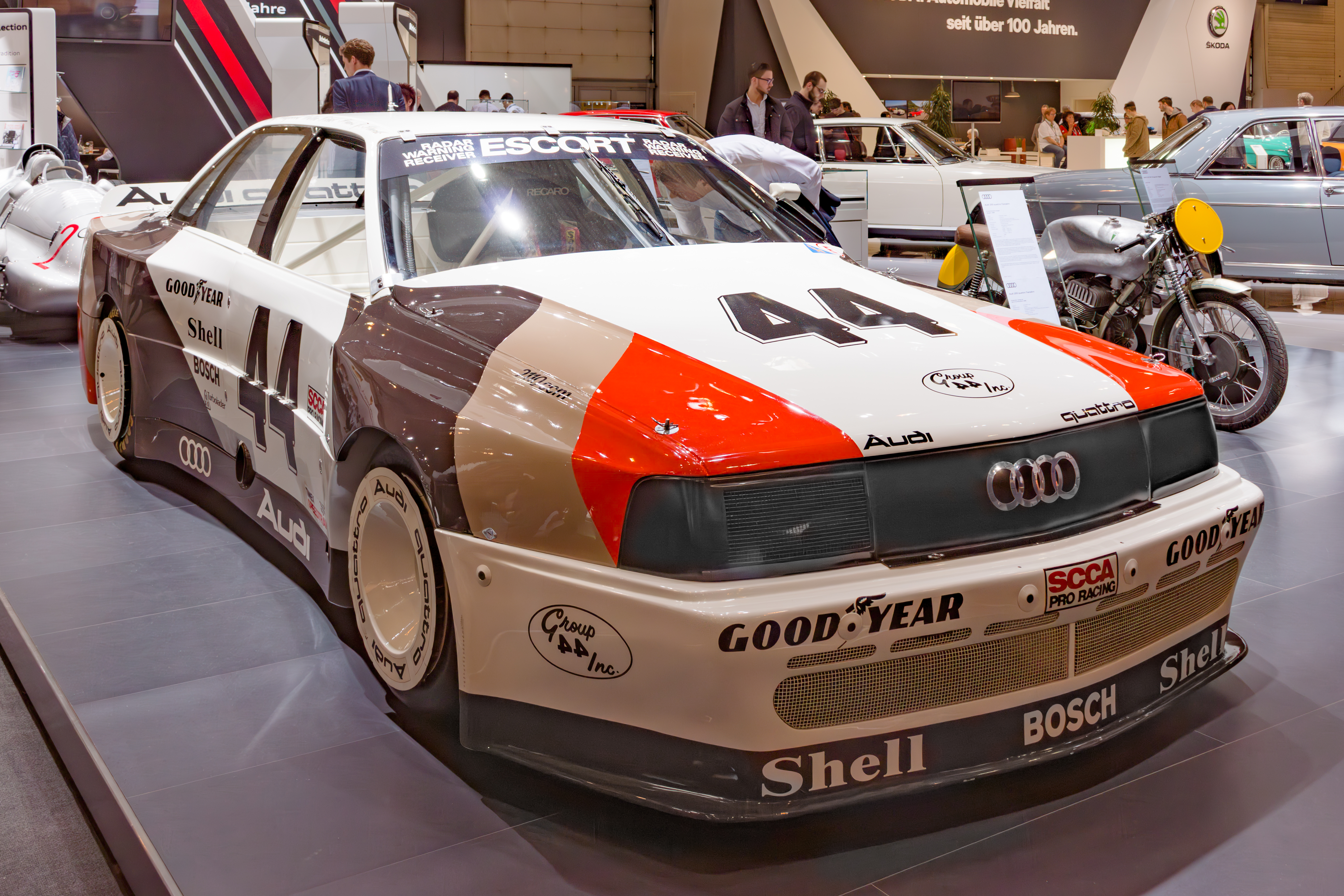 Techno-Classica 2018, Essen